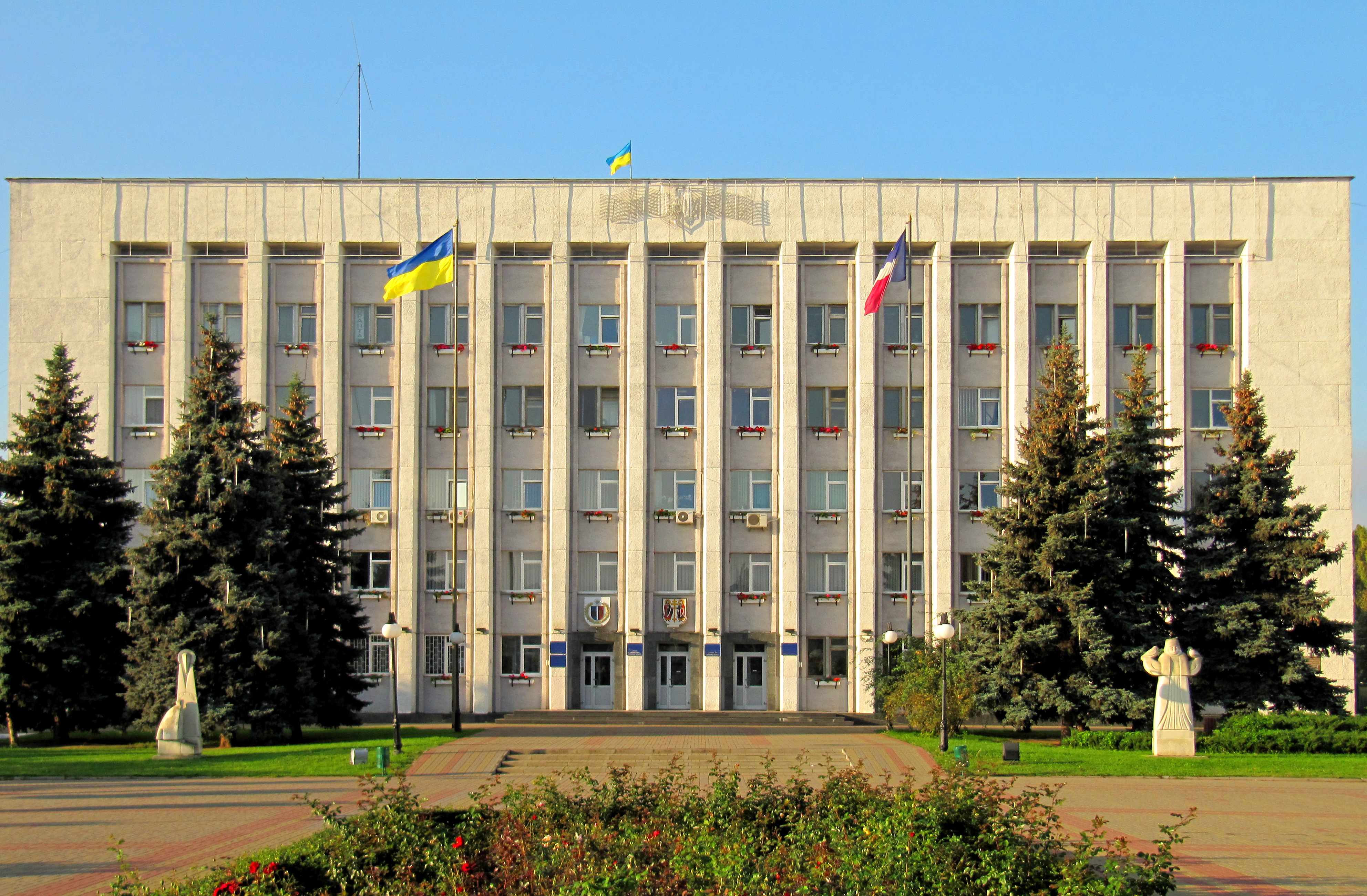 Ukraine, Vyshhorod (Kiev Oblast) — City council building.